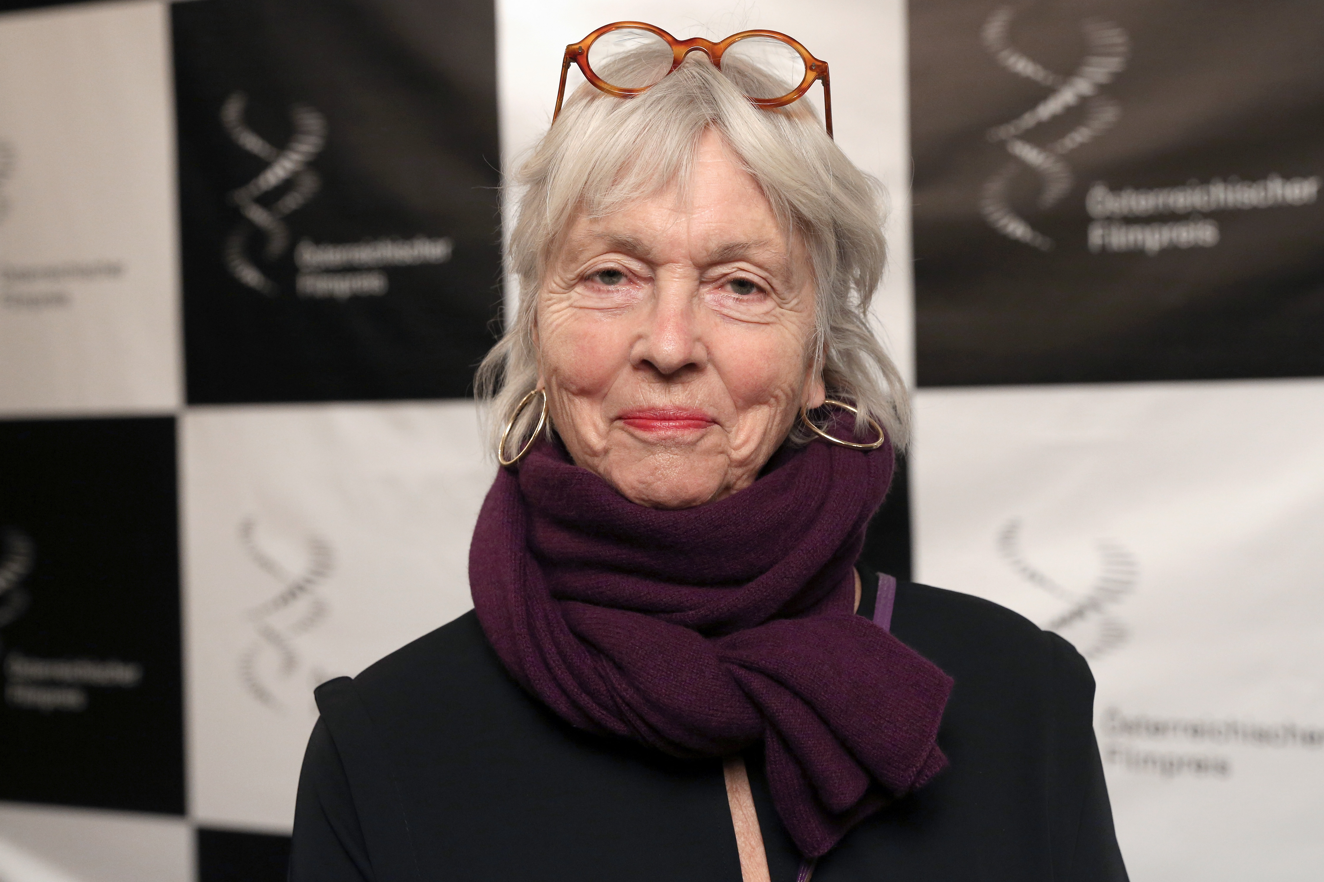 Birgit Hutter at the Austrian Film Awards 2015 at Rathaus, Vienna,Austria.